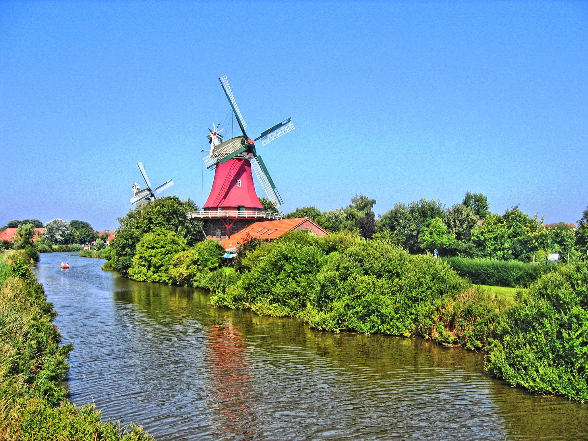 Greetsiel Windmills (Germany)